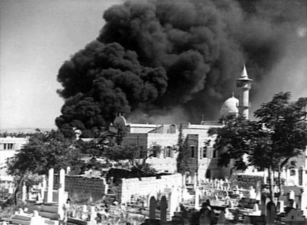 1940-09. HAIFA. - DESTRUCTION OF MOSLEM GRAVE-YARD AND THE ISTIKLAL MOSQUE BY ITALIAN BOMBER. (NEGATIVE BY PARER).